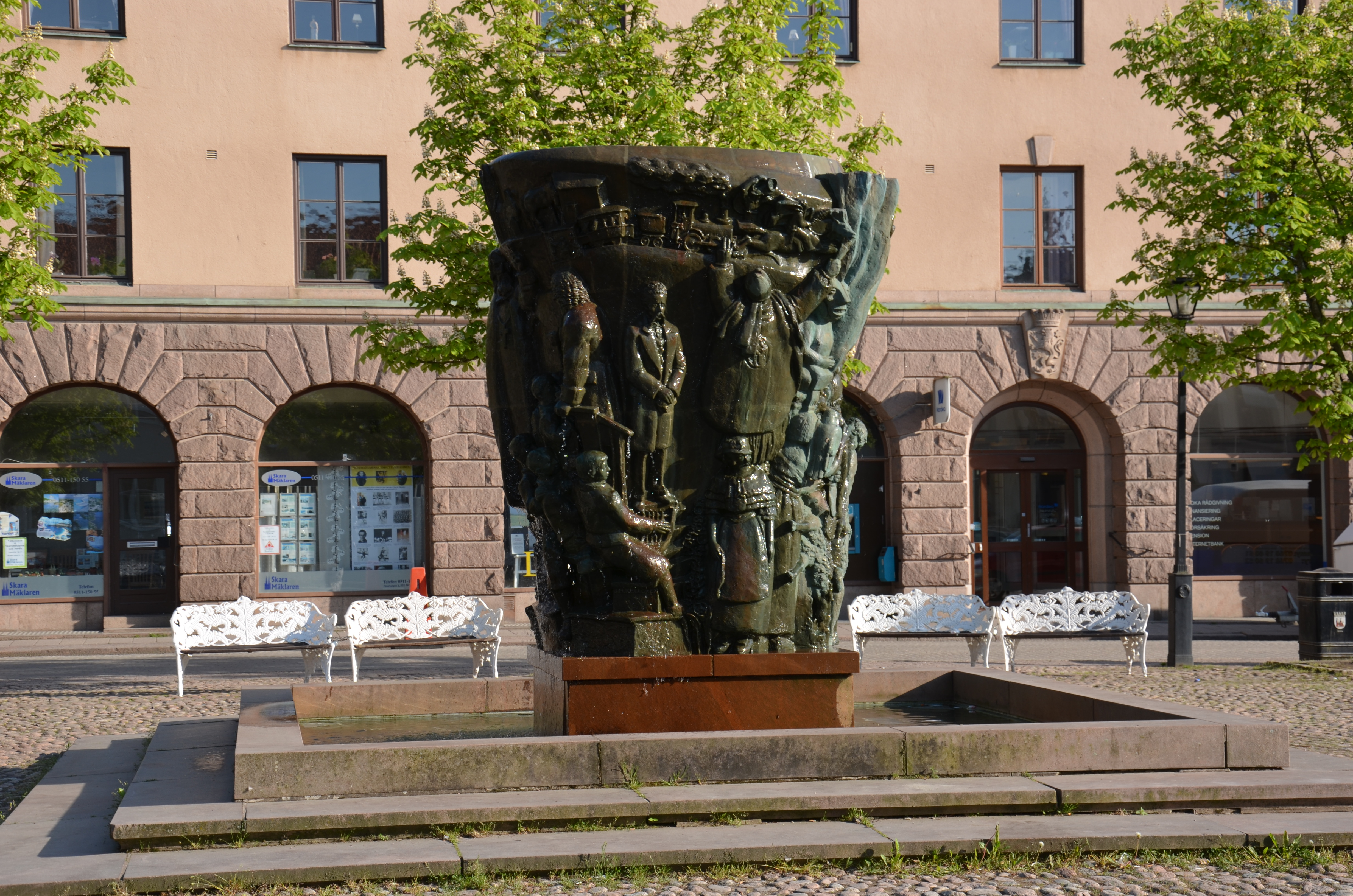 Nils Sjögren´s Krönikebrunnen, in Skara